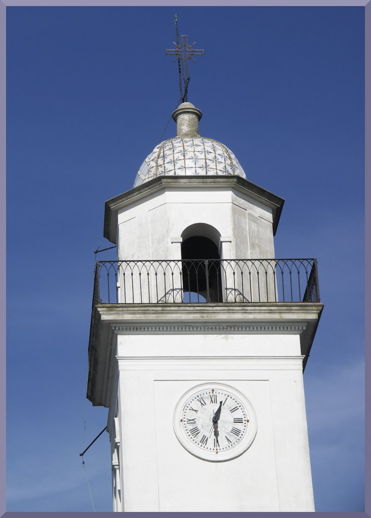 Grimpa, architectural element, as closing of a bell tower top